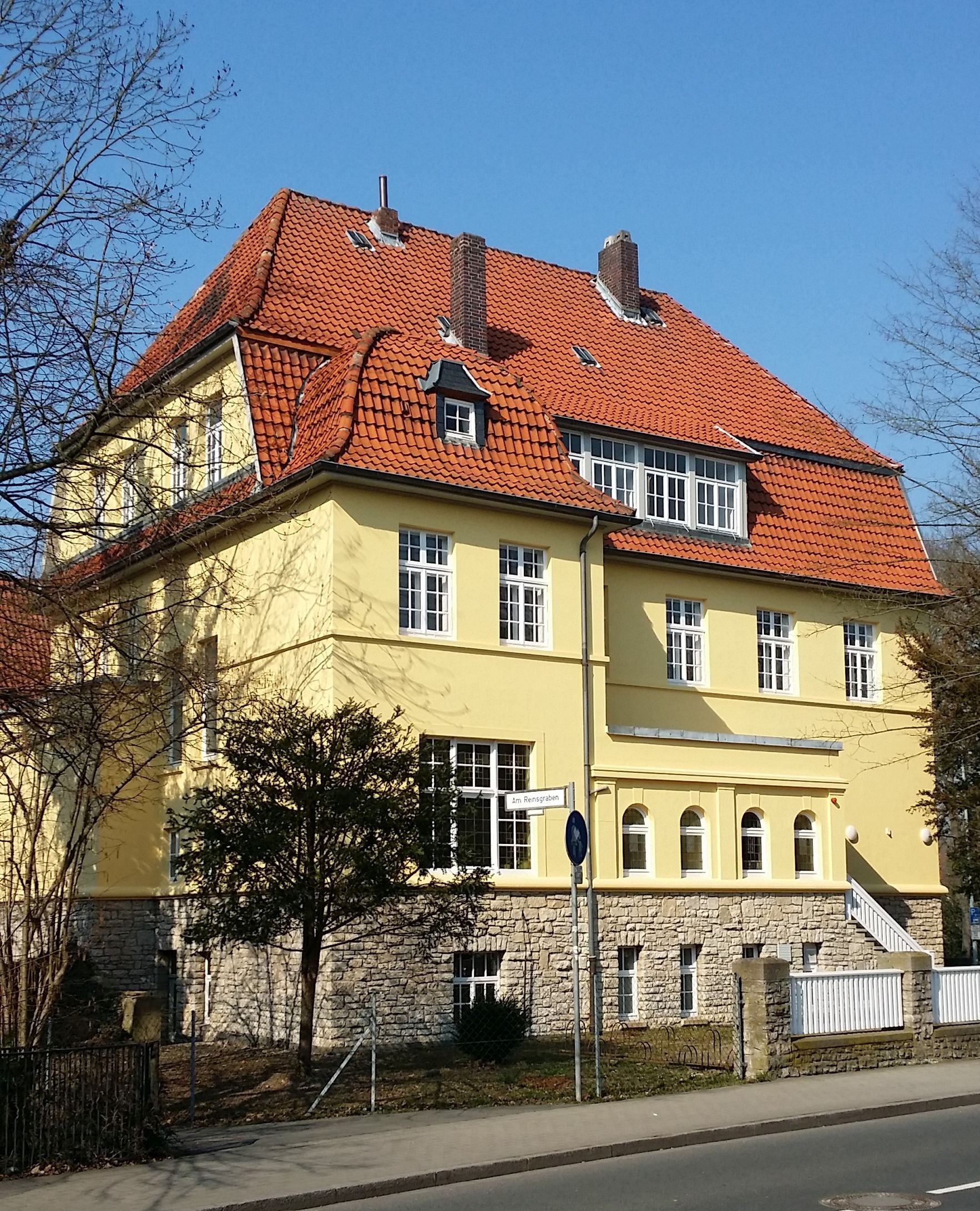 Building of the YLAB- laboratory for young people in the humanities